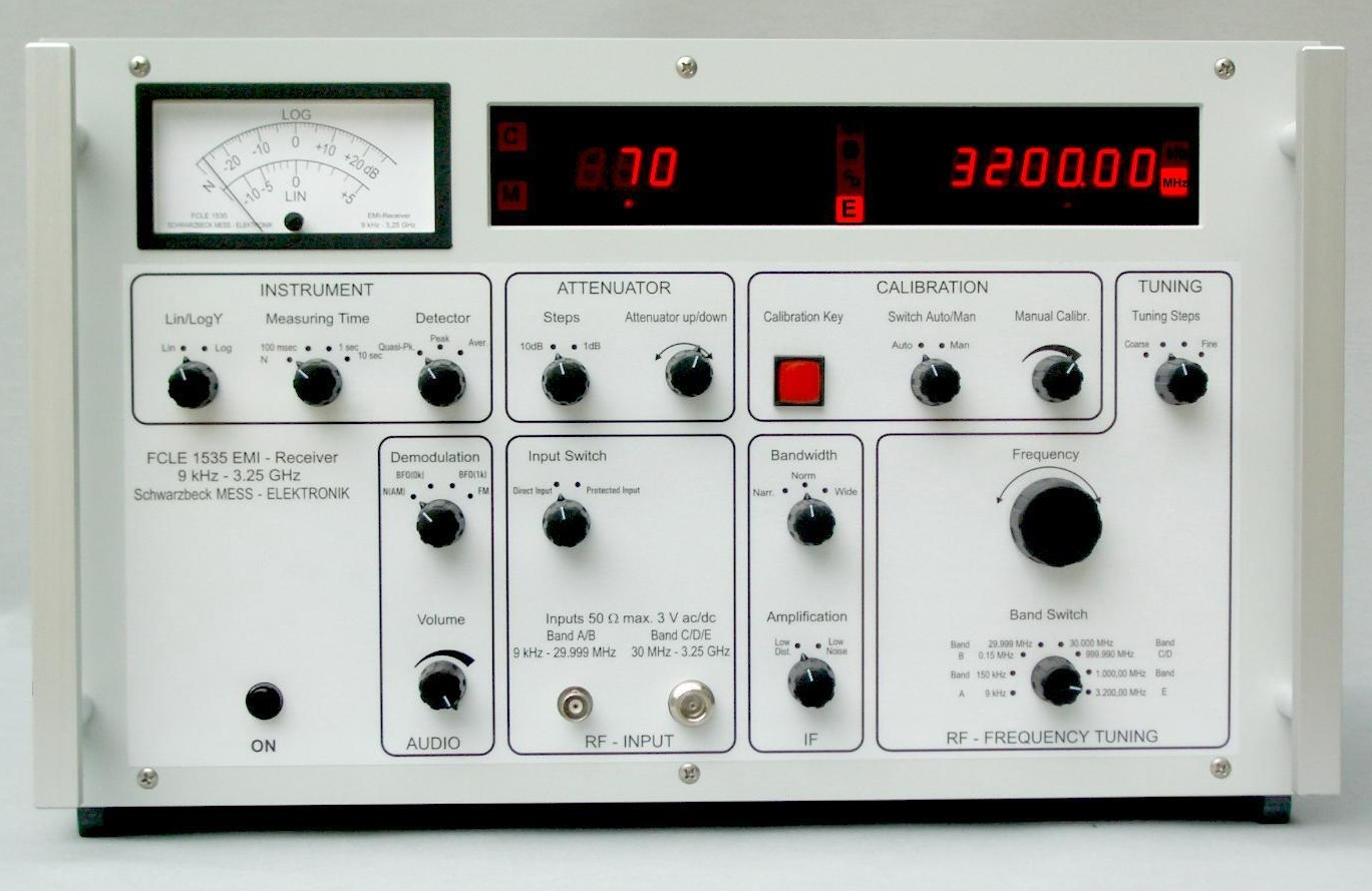 FCLE 1535, EMI-Receiver acc. CISPR 16-1, 9 kHz – 3.25 GHz, 3 Detectors: Quasipeak, Peak, Average, Protected Input, Automatic Calibration.